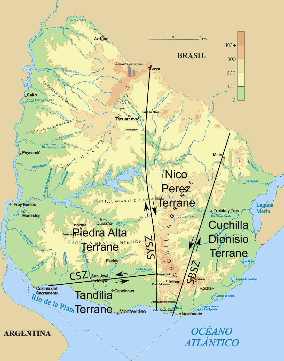 Topographic map of Uruguay with shear zones and terranes